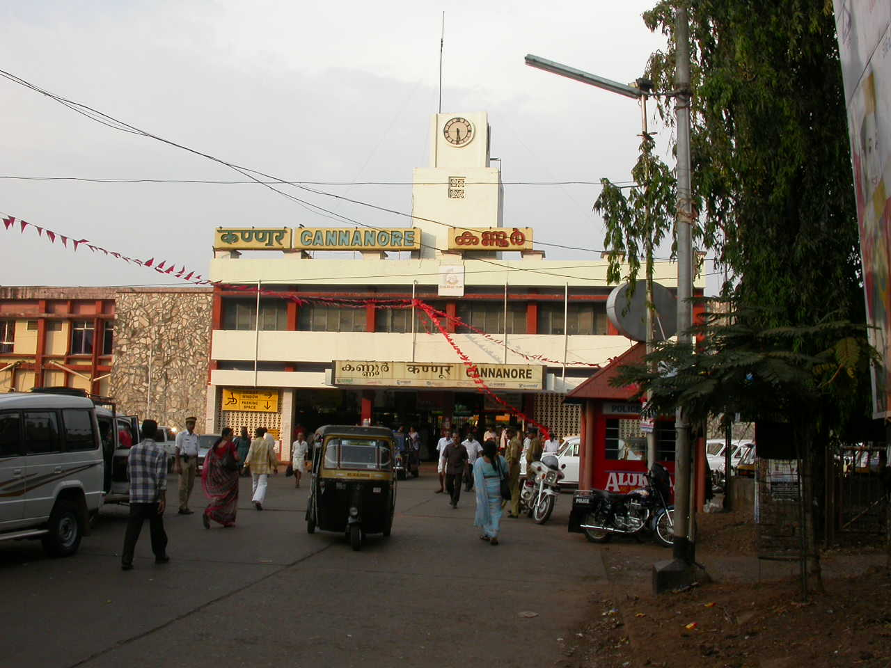 TV Manoj; Kannur Railway Station